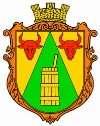 Coat of arms of Pavlovo Village